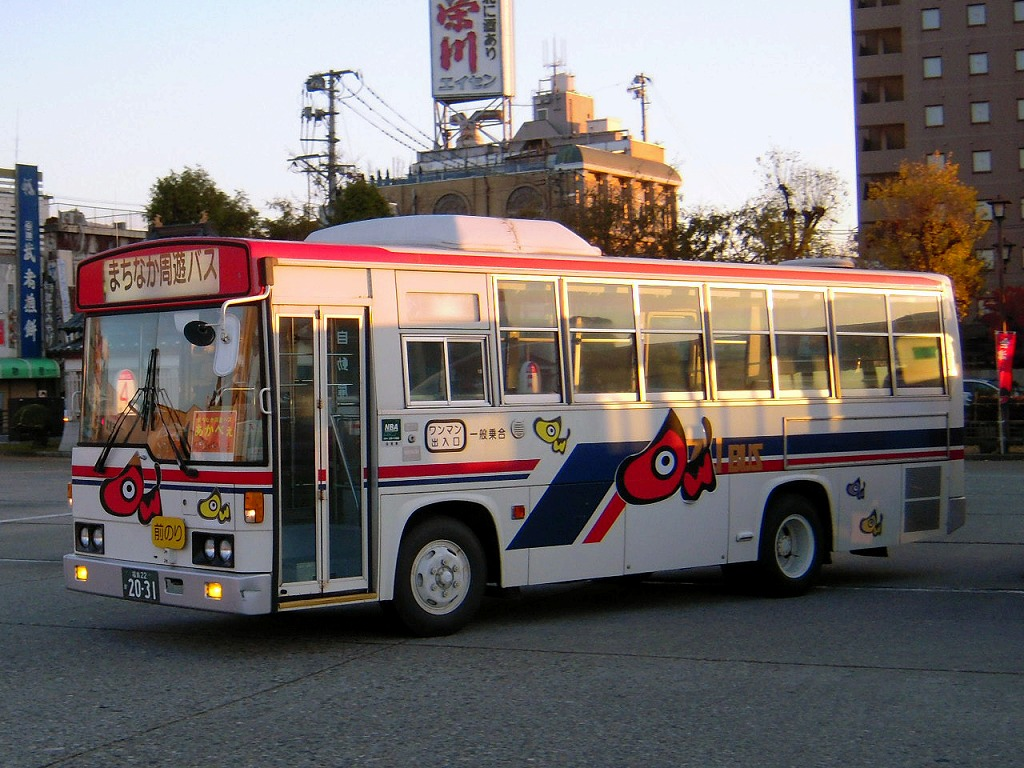 Aizu Bus Hino Rainbow (U-RR3HGAA)